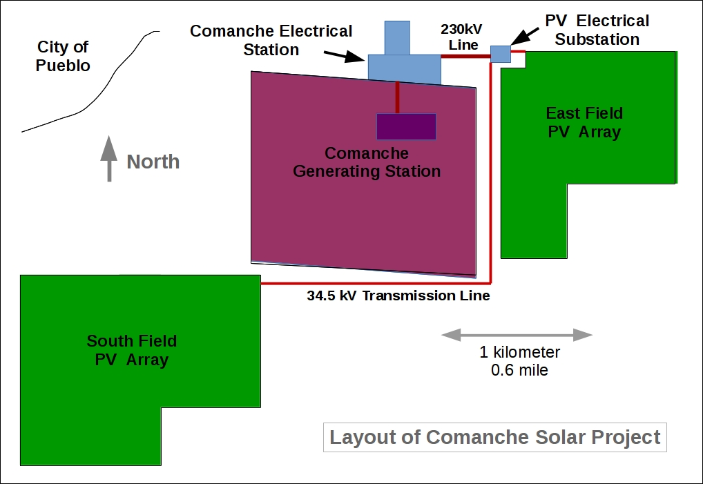 This image shows the general layout and features of the facility